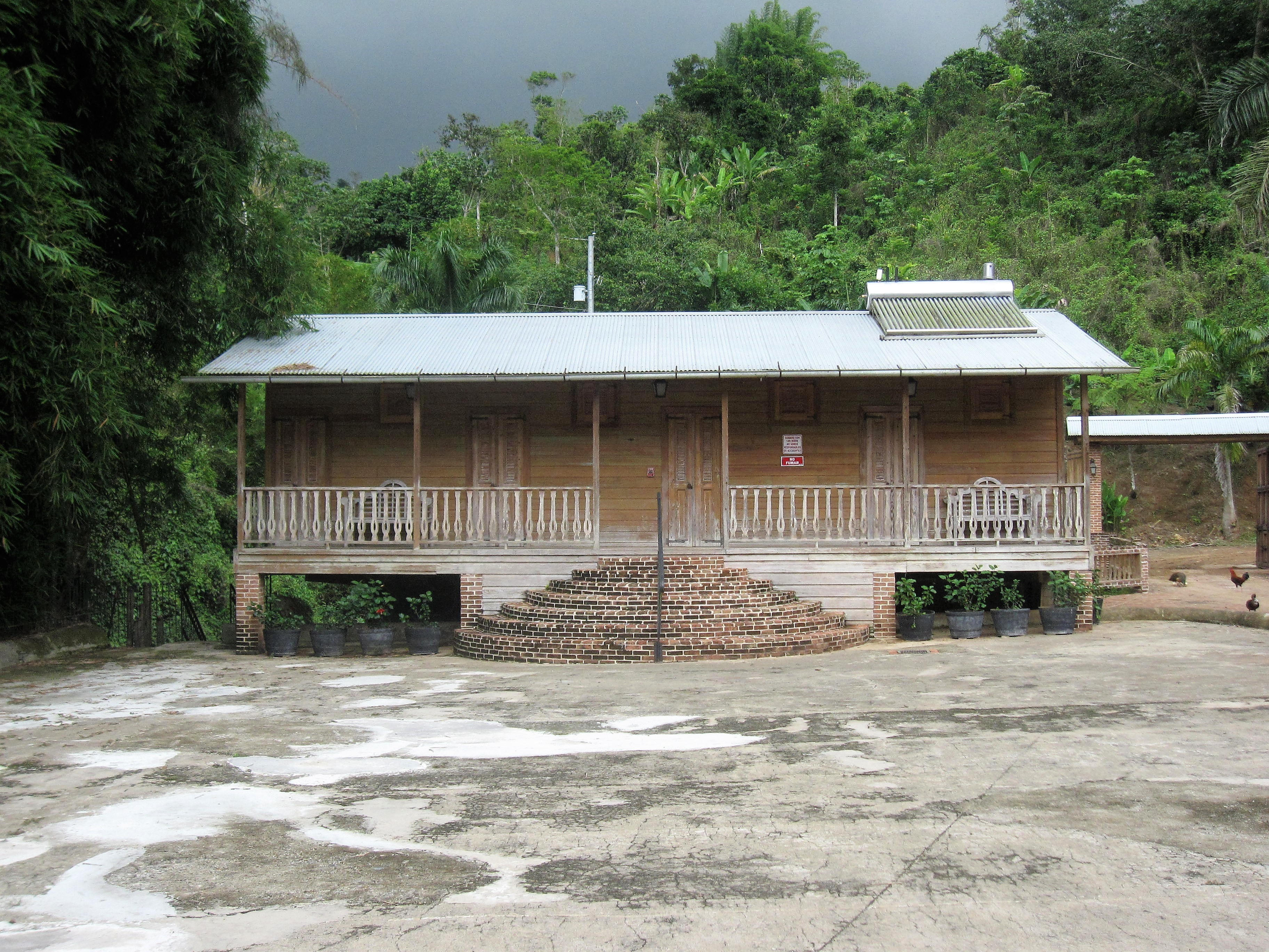 Where 32 slaves, their wives and children lived in the 19th century, in Lares, Puerto Rico